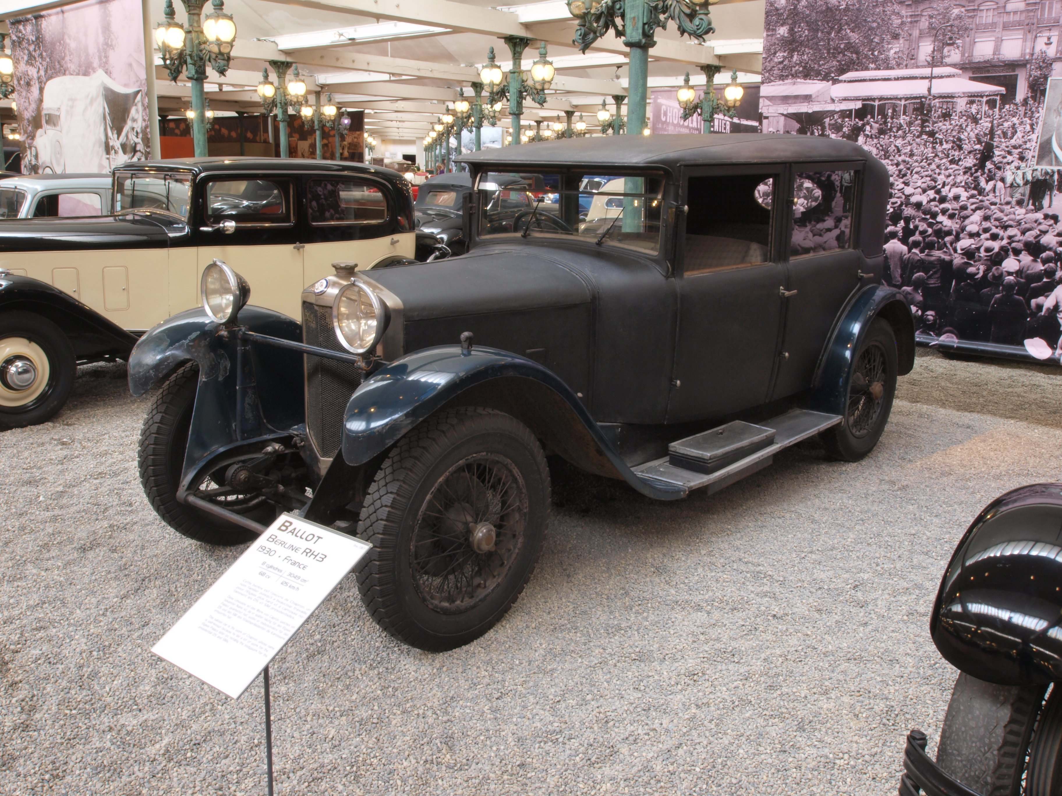 Photographed at the Cité de l’Automobile, France. OLYMPUS DIGITAL CAMERA